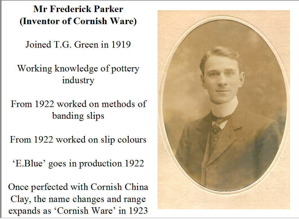 Frederick Parker. The inventor of Cornishware for T.G.Green & Co Ltd